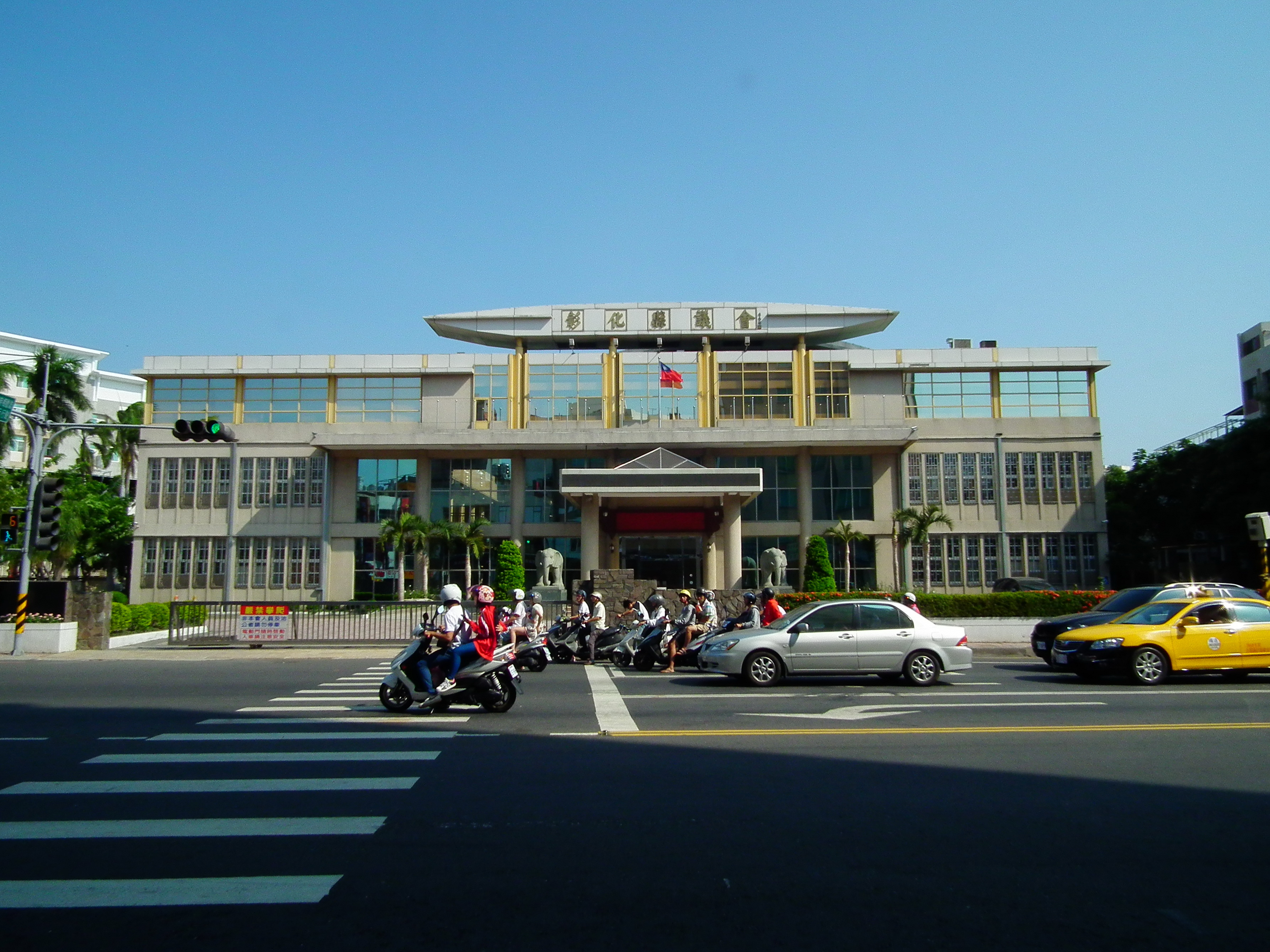 Zhanghua County Council 彰化縣議會